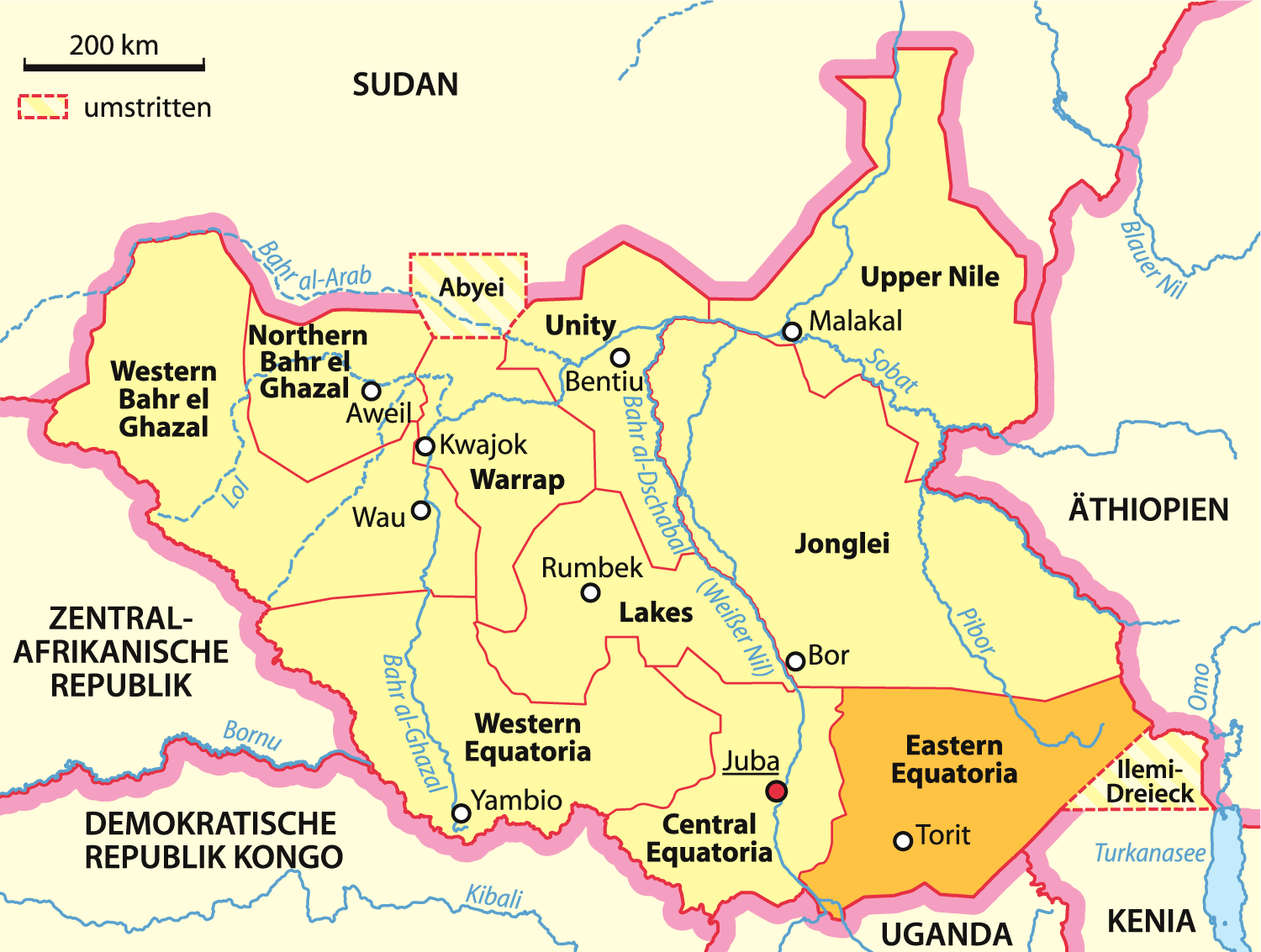 Map of Eastern Equatoria state in South Sudan.